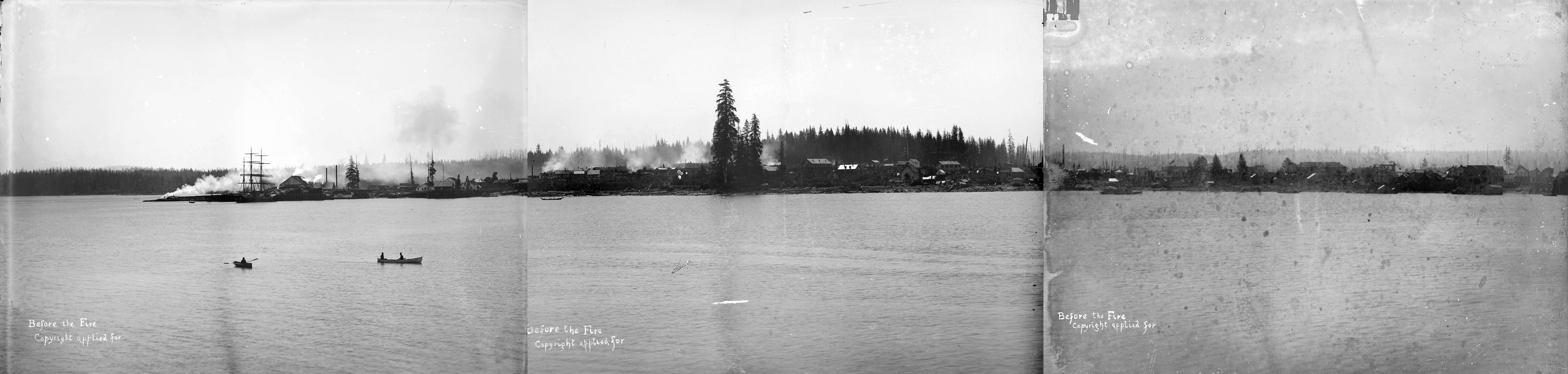 Here is a panorama of the Vancouver waterfront, circa May, 1886. The three images are from the City of Vancouver Archvies, and I have stitched them together, with a little bit of dodging and burning. The third image is showing quite a lot of wear unfortunately, but the view is remarkable. In a month's time, pretty much the entire city you can see here is burnt to the ground. For more on H.T. Devine, This image was originally featured in a story in the Sun & Province in July 2016, but the story was pulled not long after (posted prematurely). It reappeared in early August here: However, the third image in this copy of the print is in much better condition than the negative: Source